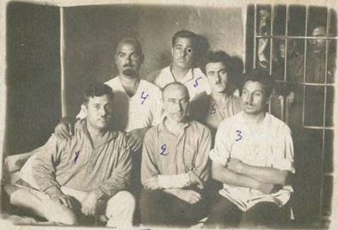 Musavat